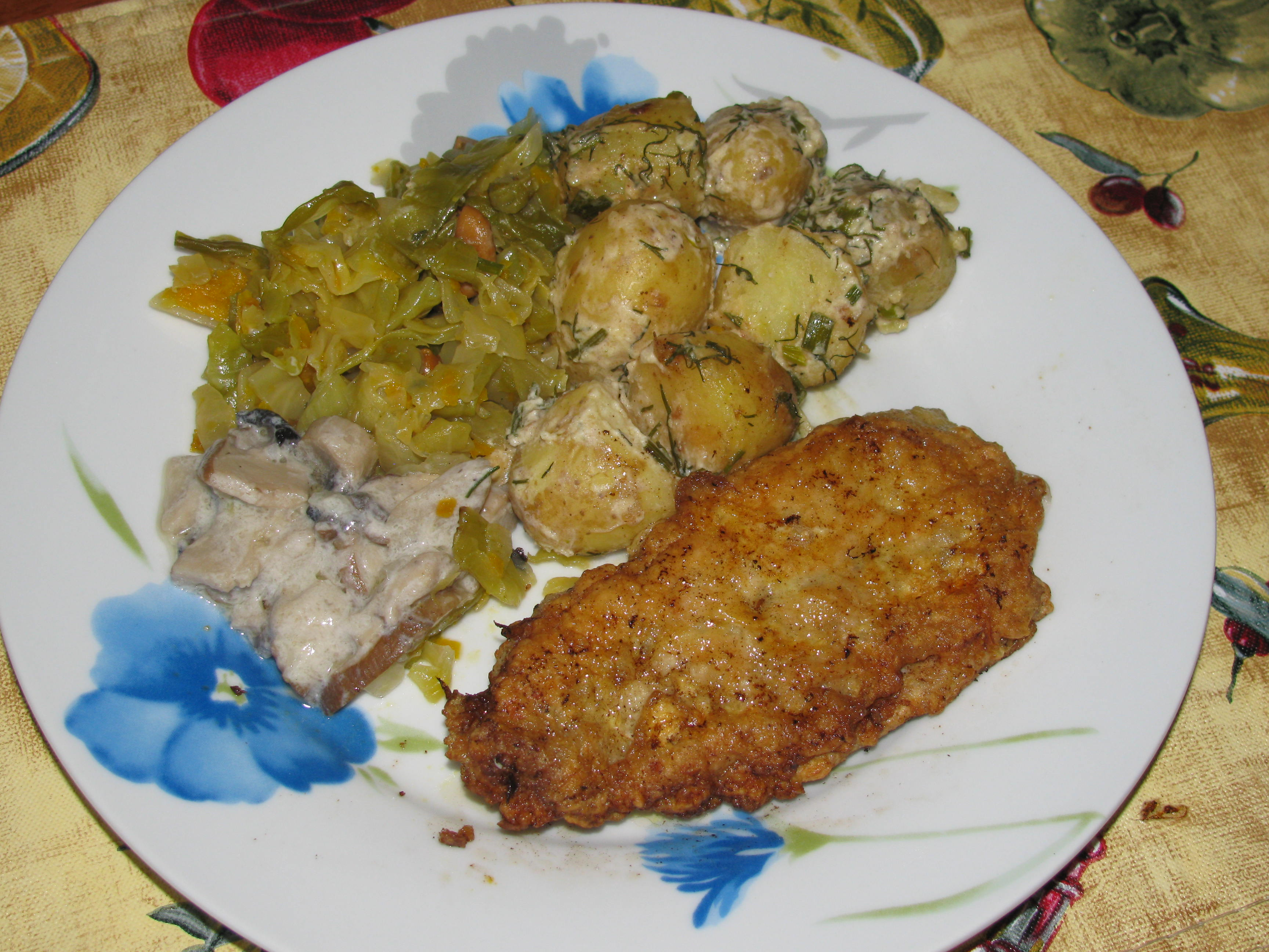 Pork chop in egg and flour coating with side dishes